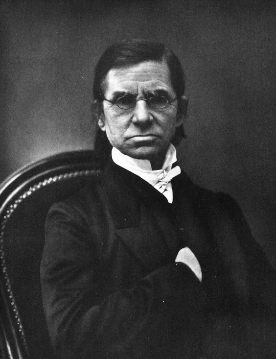 Émile Littré (1801-1881) Philologe, Philosoph und Medizinhistoriker